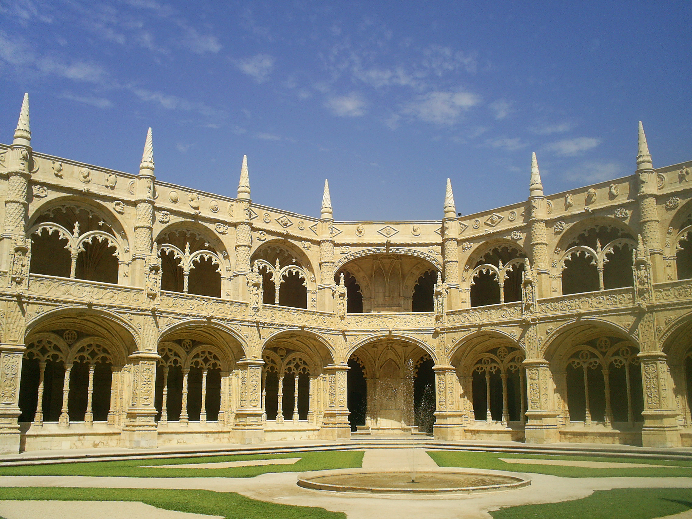 Cloisters at Mosteiro dos Jerónimos